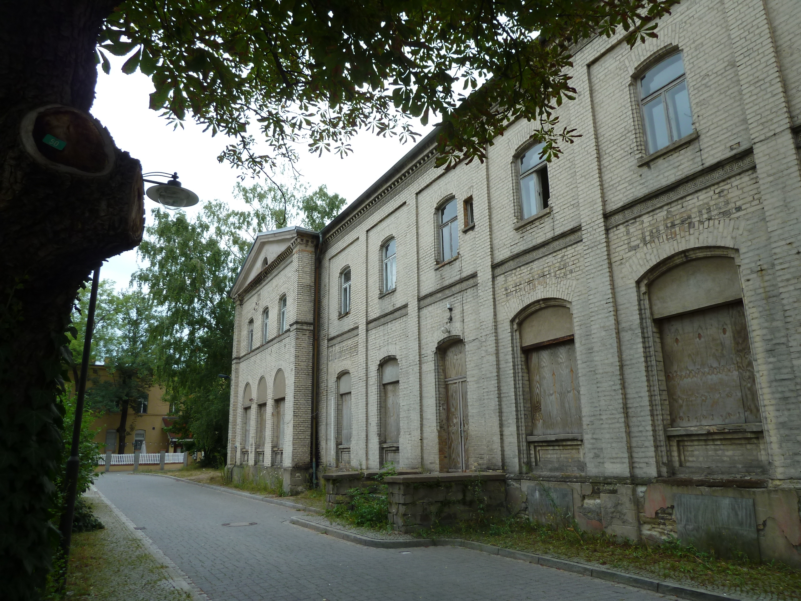 The Berlin-Halberstädter Bahnhof in Köthen (adjacent to the recent Köthen station) was in use from about 1870/71 to 1917. The neogotic building is part of sequences of station buildings from different epoches wich is unique for Gernamy. View from Southwest.